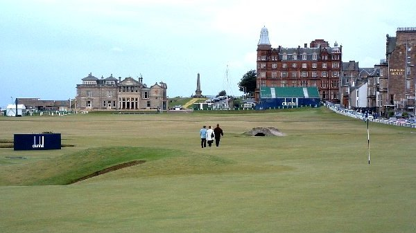 Bridge over the Swilken burn